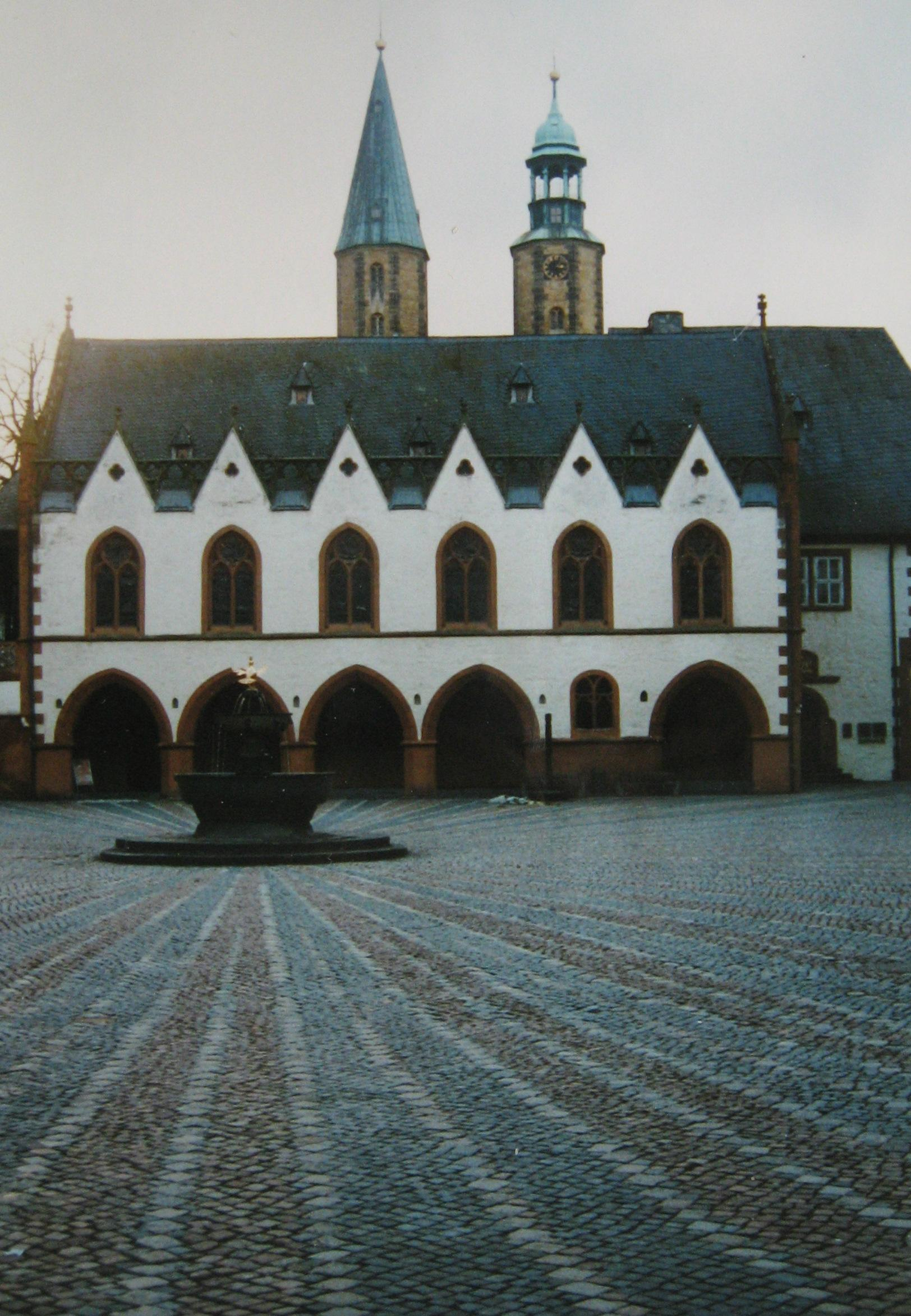 town hall and market square with the "Marktbrunnen" in Goslar